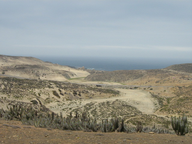 View from Locayo